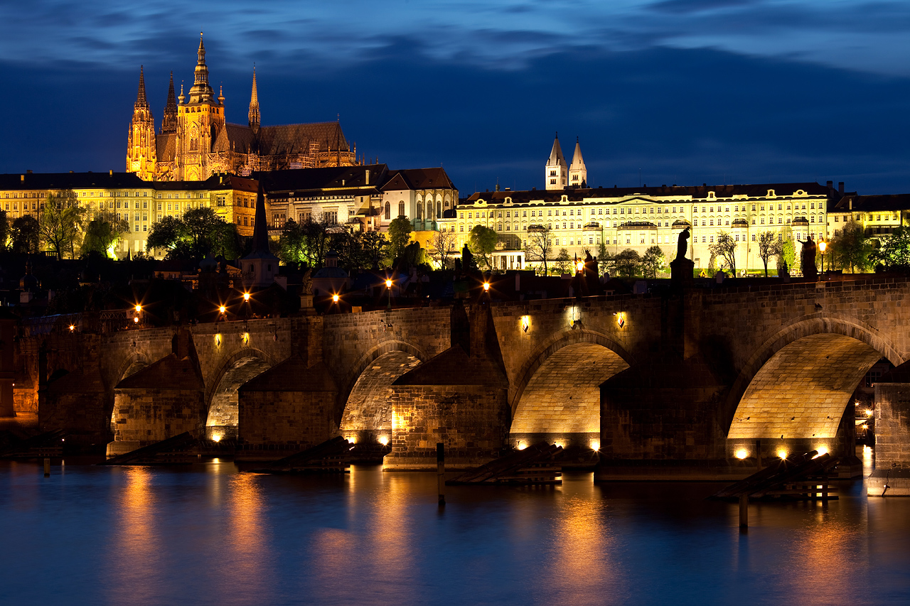 Charles Bridge in Prague is a famous historical bridge that cross the Vltava river. Its construction started in 1357 under the auspices of King Charles IV, and finished in the beginning of 15th century.